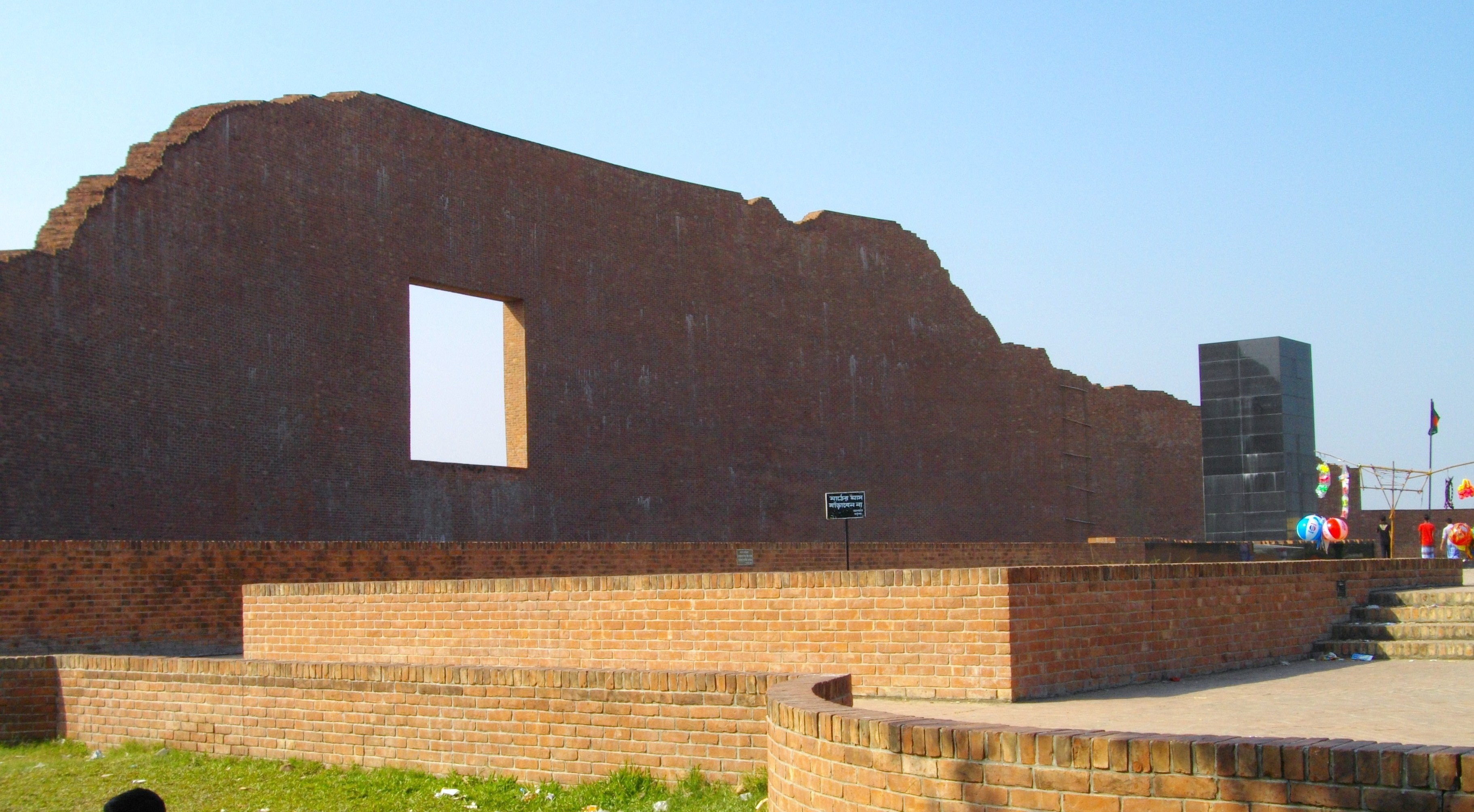 Photo of Monument at Rayen Bazaar killing Fround in Dhaka.